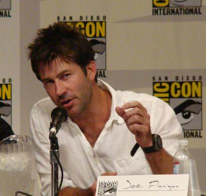 Joe Flanigan at the 2007 Comic Con International